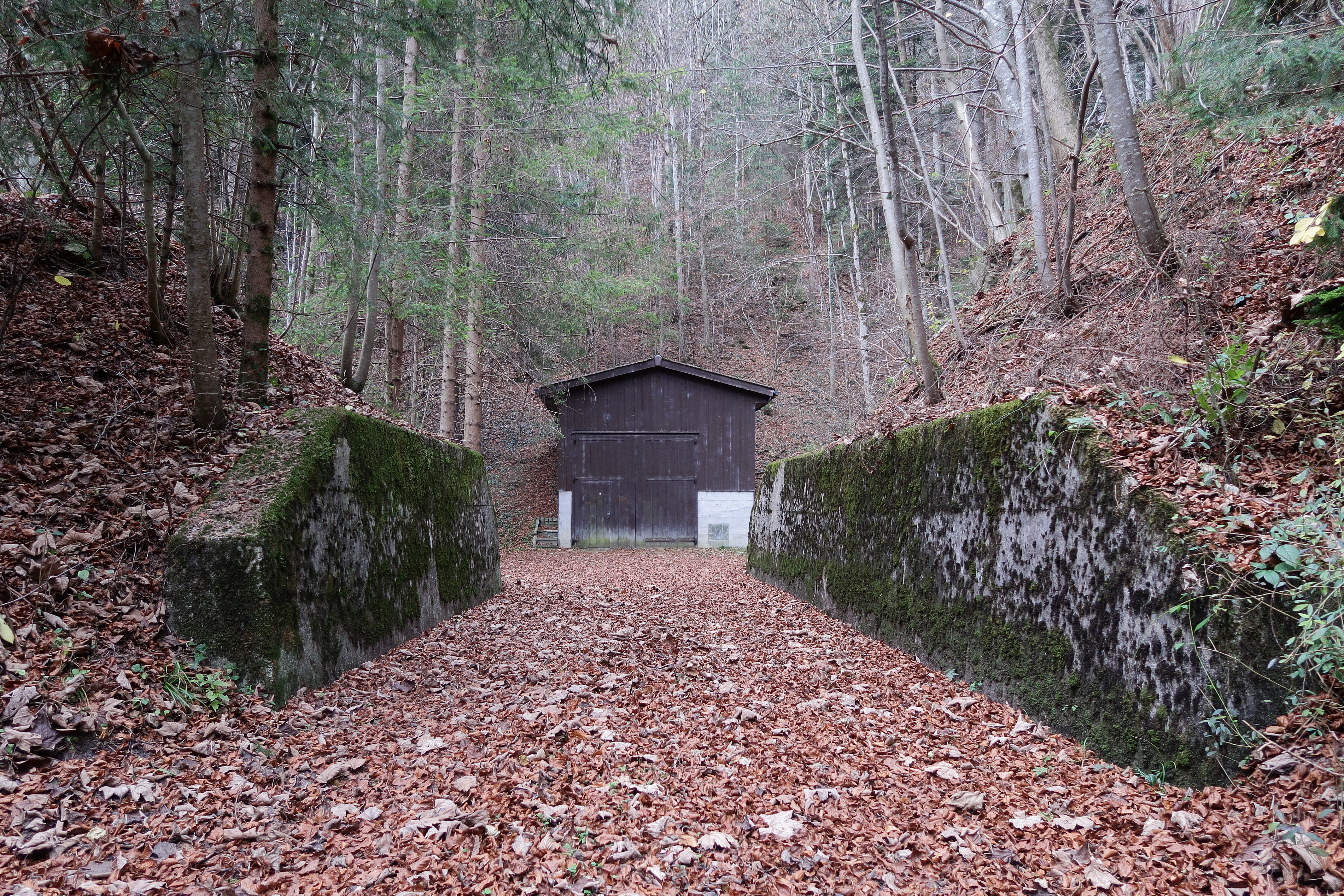 This series of photos shows all outside parts of an underground command post. It was built in 1970 and used by the border brigade 8 until the army reform 95. Now the army wants to sell the bunker. The municipality of Schlatt-Haslen could buy the bunker at a preferential price of 40,000 CHF. Then the bunker would be made accessible to the public by a fortress society. On 7 May 2017, the vote will be held. If the purchase is rejected, the bunker will be publicly marketed for sale. But the price will then be certainly a lot higher. The plot has a size of approximately 2.75 ha (6.8 ac.). The driveway to the main entrance. Switzerland, Nov 24, 2016. (1/16)